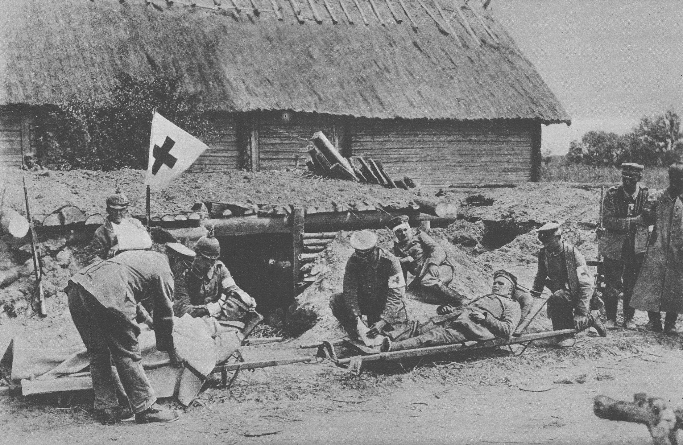 German field medical unit in Kolno, Poland, during World War I